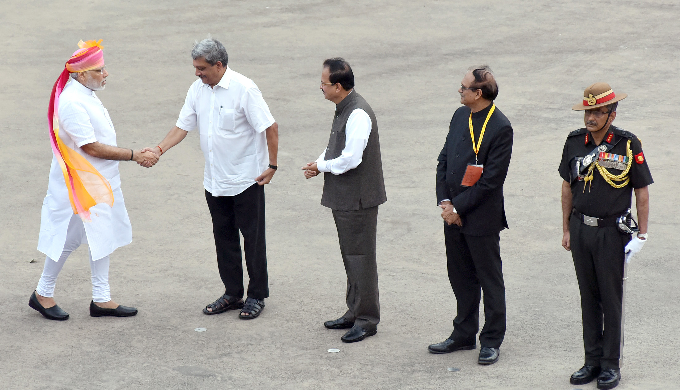 The Prime Minister, Shri Narendra Modi being received by the Union Minister for Defence, Shri Manohar Parrikar and the Minister of State for Defence, Shri Subhash Ramrao Bhamre, on his arrival at Red Fort, on the occasion of 70th Independence Day, in Delhi on August 15, 2016.The Defence Secretary, Shri G. Mohan Kumar is also seen.